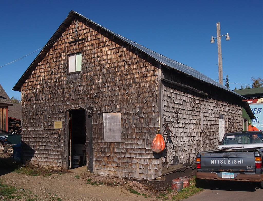 Jim Scott Fishhouse, Grand Marais, Minnesota, USA. Viewed from the southeast.